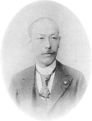 K. Osawa, Professor of Physiology.